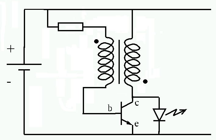 Circuit diagram selfdrawn. Connections per